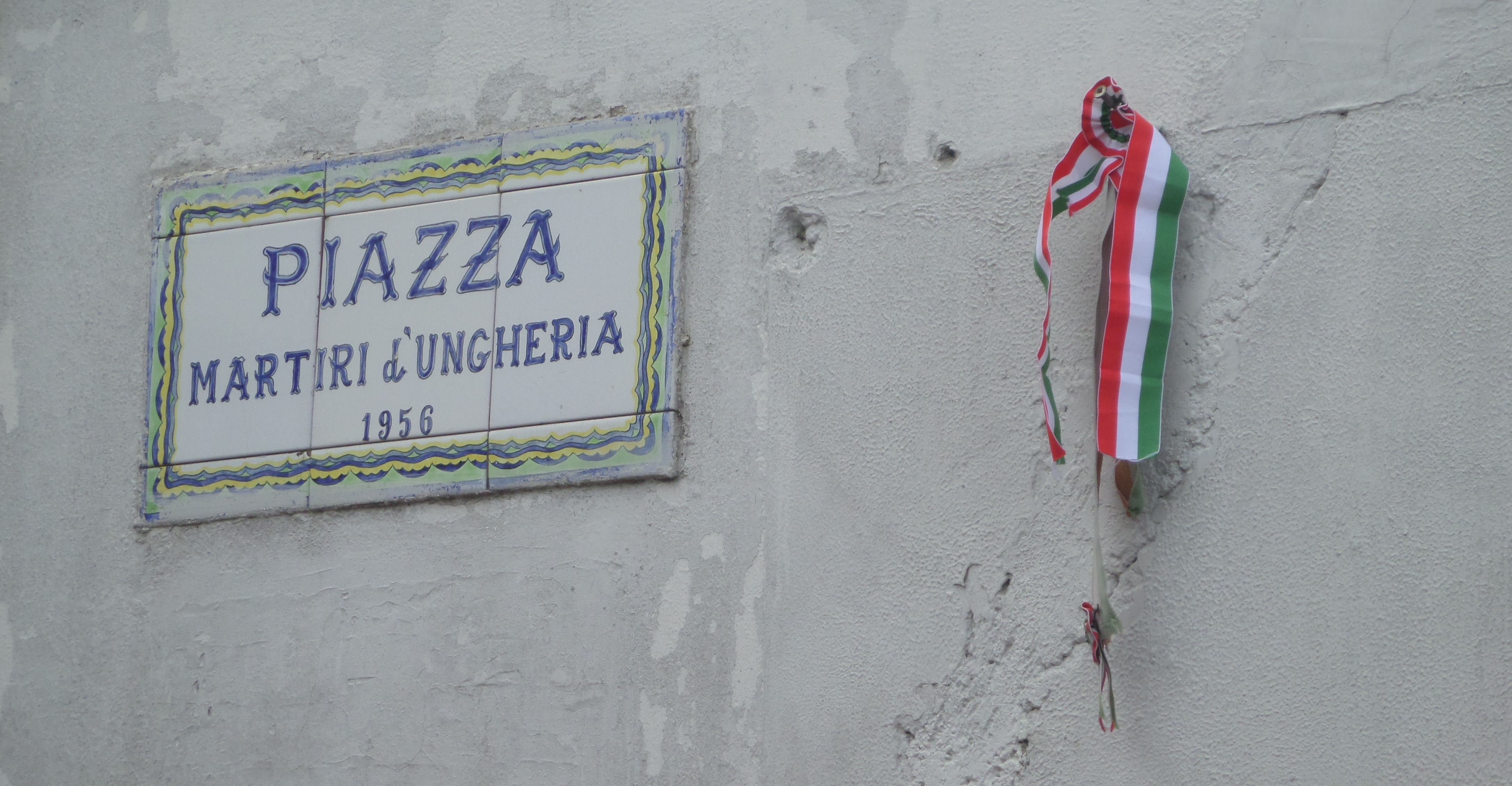 Square of the Hungarian Martyrs of 1956. Capri, Italy.